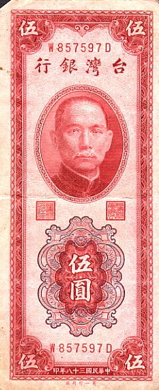 Taiwan (Republic of China) 1949 bank note - 5 new Taiwan dollars (front) Bân-lâm-gú: Tâi-uân Gîn-hâng tī Bîn-kok 38-nî ìn ê 5-khoo gîn-phiò. 臺灣銀行佇民國三十八年印的5箍銀票。